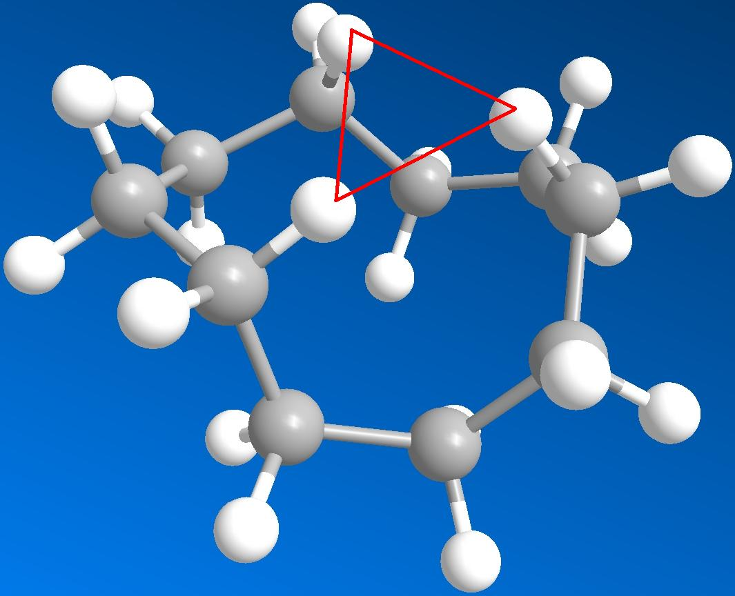 Cyclodecane in its most stable conformation. Transannular strain is caused by the three interacting hydrogens indicated by the red triangle.